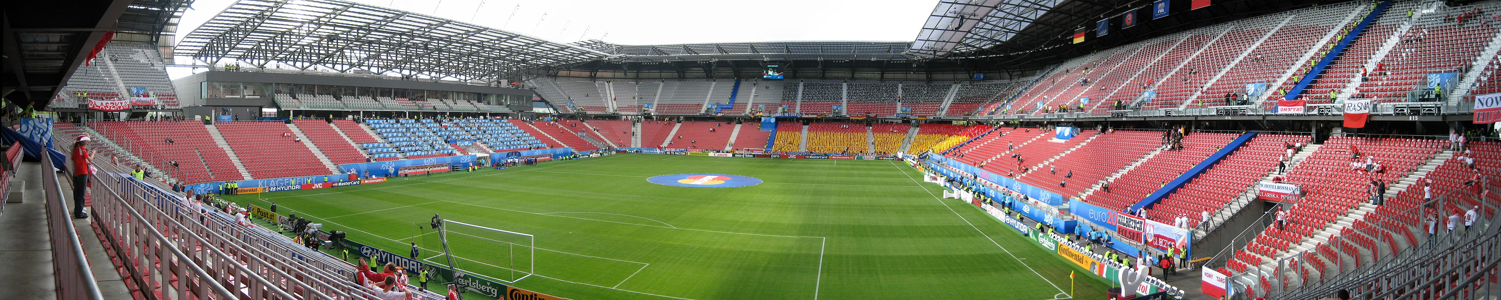 Stadium Hypo-Arena in Klagenfurt before the match Germany - Poland on EURO 2008.